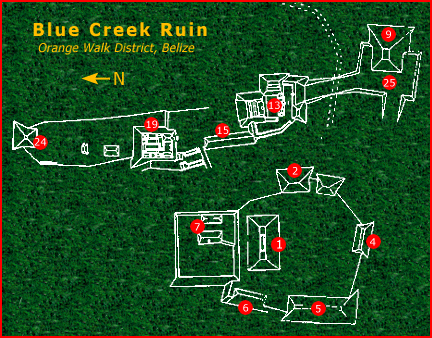 A map of the ancient Maya ruins of Blue Creek, Belize.